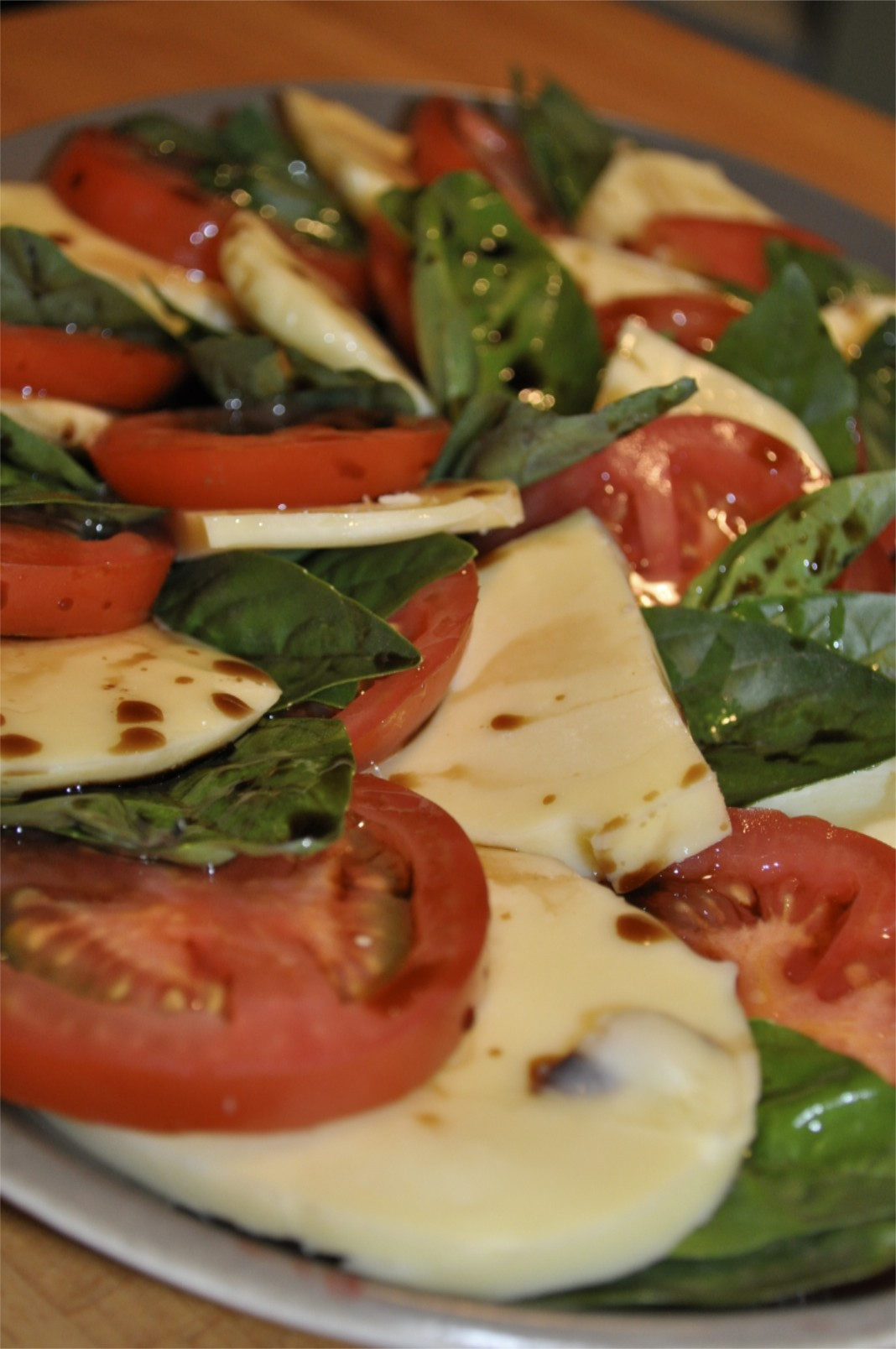 Insalata Caprese Salad. Made with tomatoes, basil, mozzarella, olive oil and balsamic